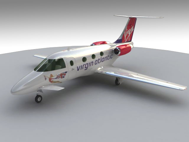 avocetvirgin